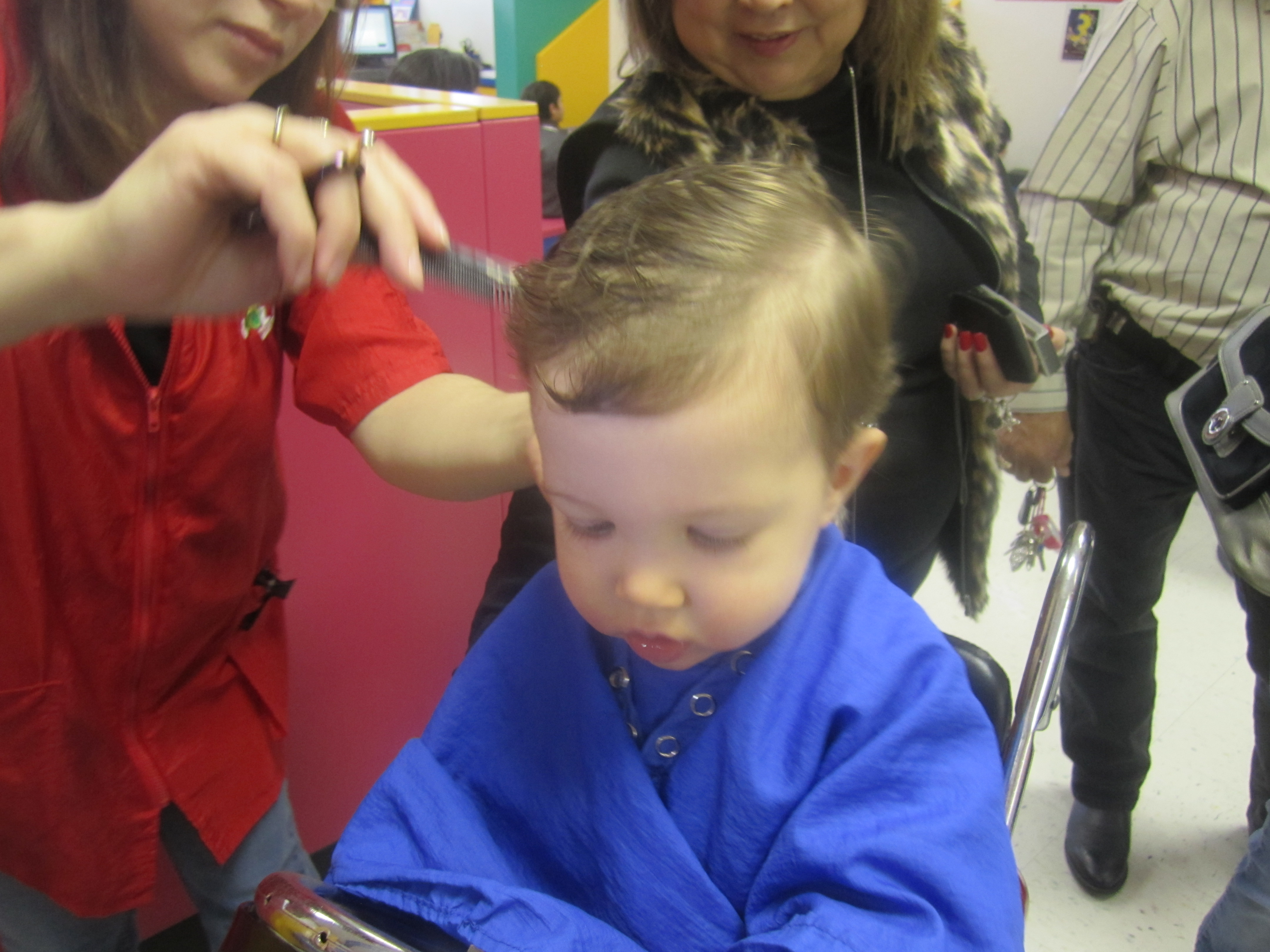 I took photo in San Antonio, TX, with Canon camera.